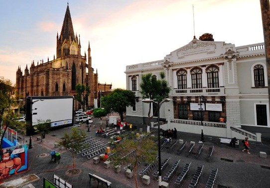 Outdoor screenings at Guadalajara Film Festival in 2011